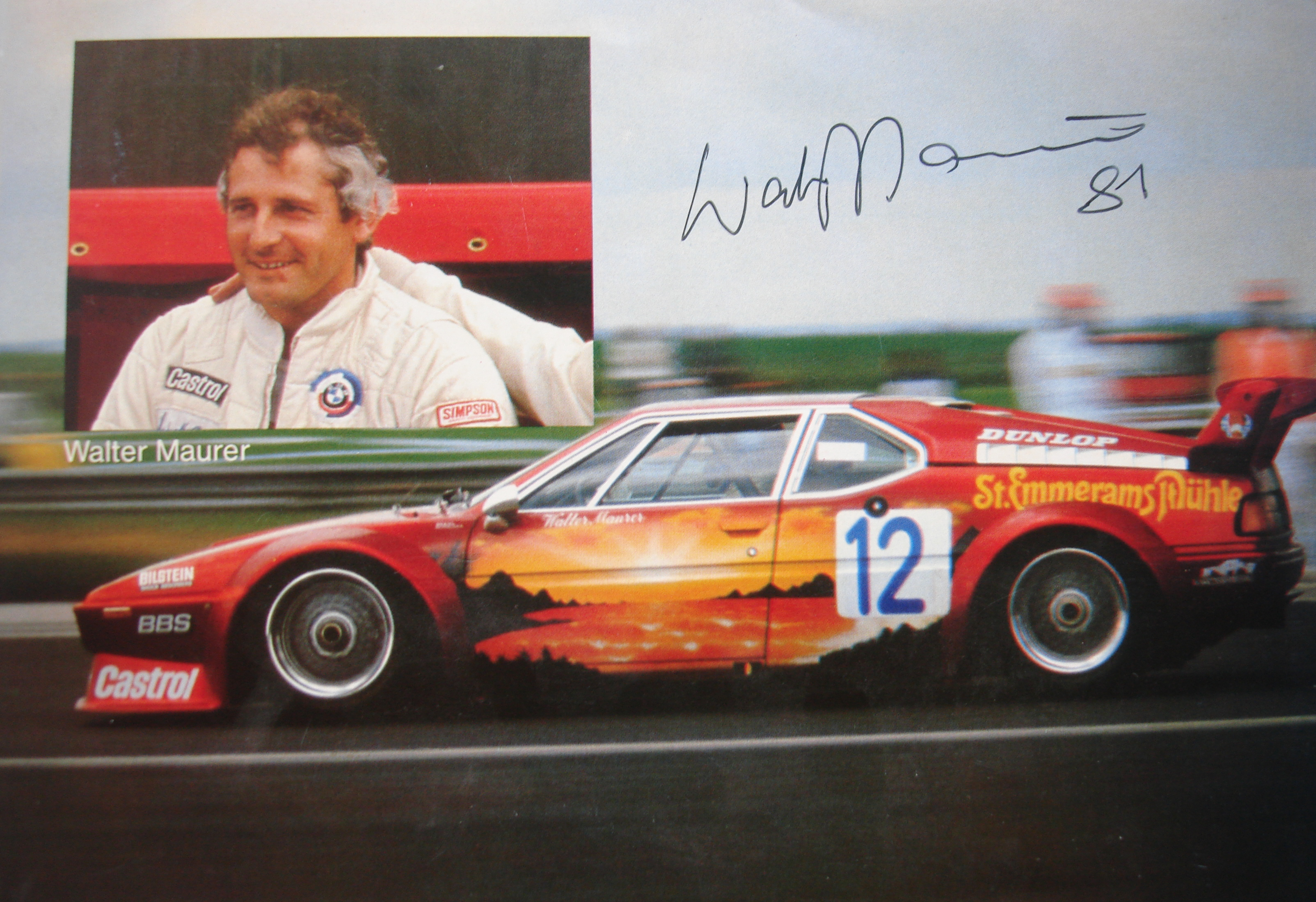 Walter Maurer (artist)